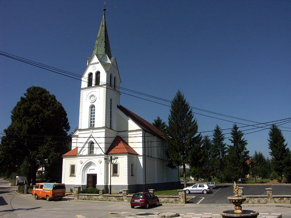 Roman Catholic church of St. George the martyr ,Vitez